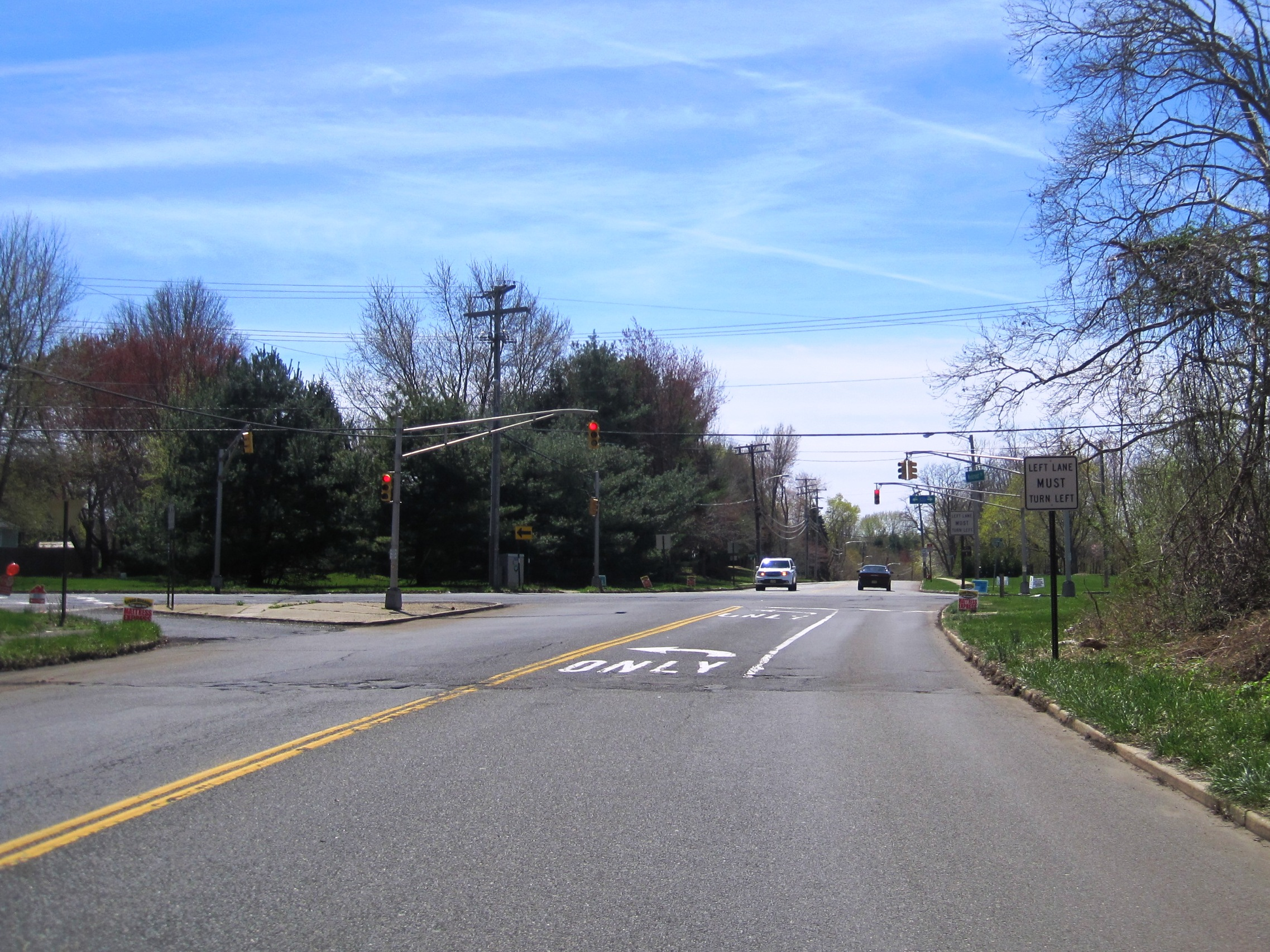 Photo of Herberts Corner, New Jersey, an unincorporated community within Marlboro Township. Photo taken on Wyncrest Road at its intersection with County Route 520.